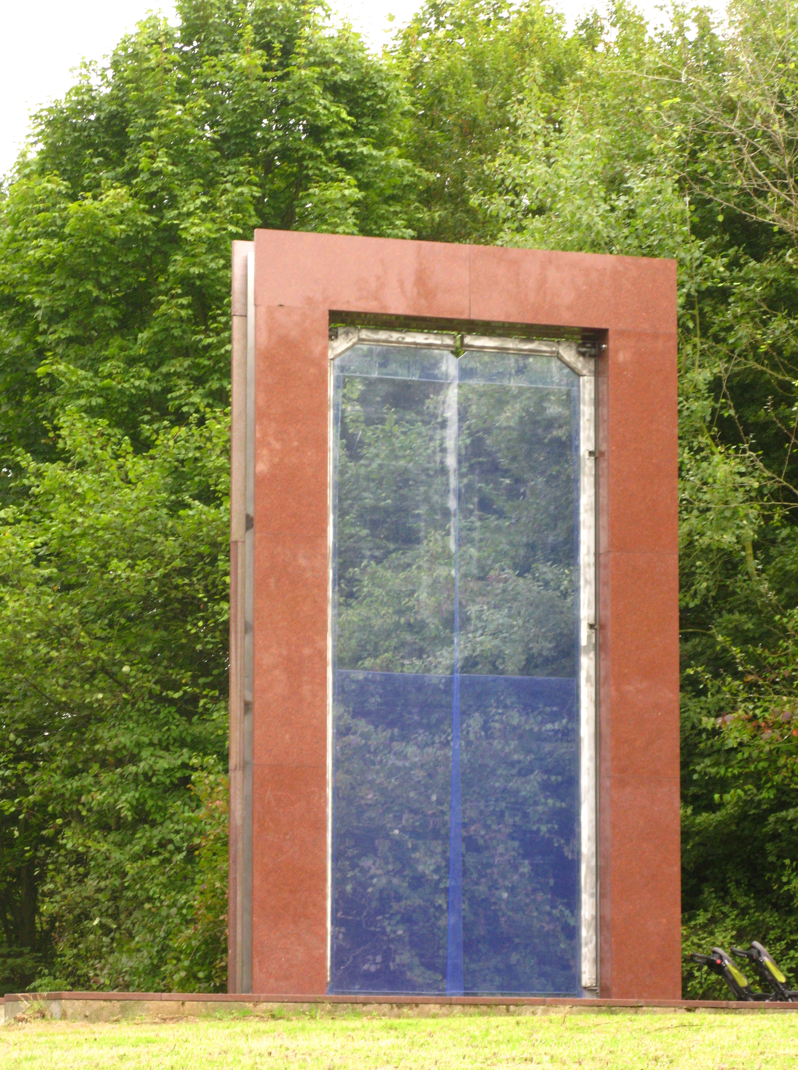 Sculpture "Schwelle" (alike to industrial style swing door) of 1957 by Raimund Kummer; after restoring in Sep 2013; location: Emscherpark, approx 150 m SE of Lohwiese 46; Essen-Karnap, Germany; coord: 51 31 02.21 N 07 00 52.11 E